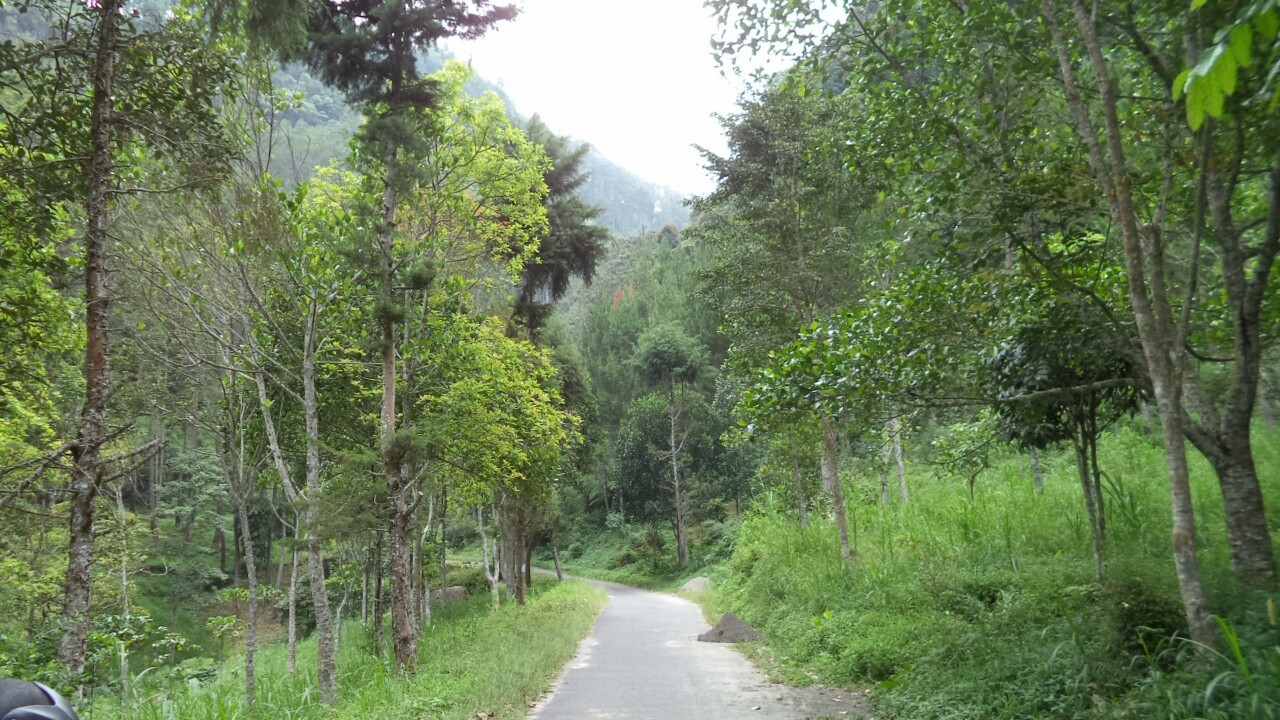 hutan lindung di sepanjang kiri kanan jalan